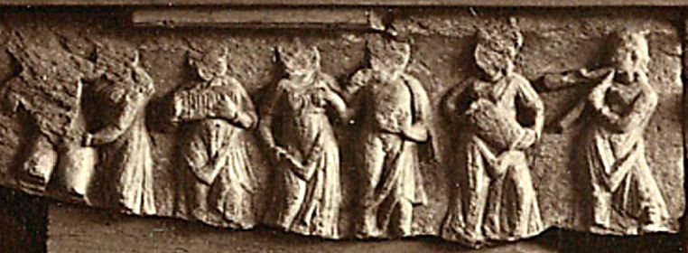 Gandhara wedding